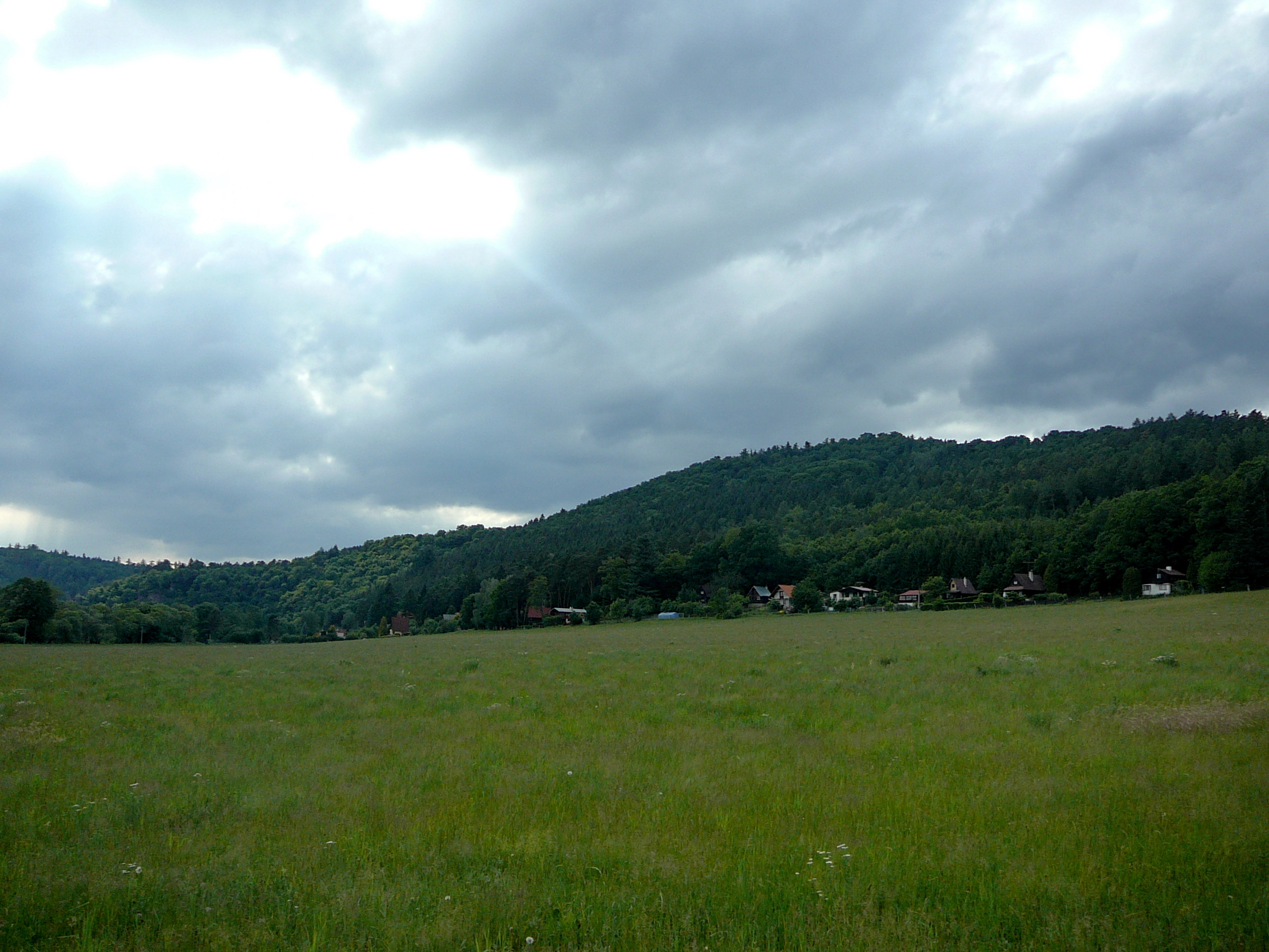 View of Čížov hill (432 m) from south-east, near Ledce village on the river Sázava; Benešov district, Central Bohemia, the Czech Republic.